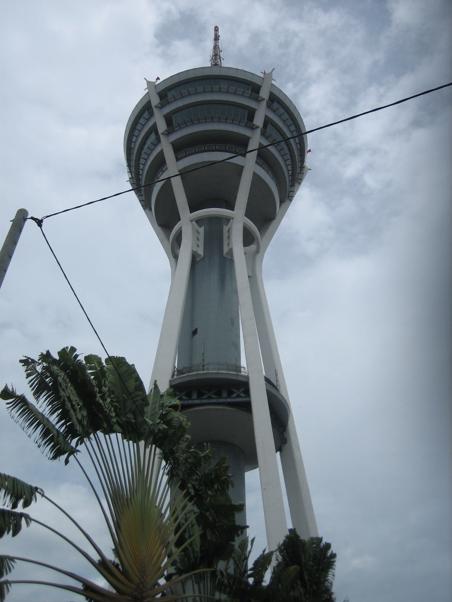 Alor Setar Tower (Kedah, Malaysia)